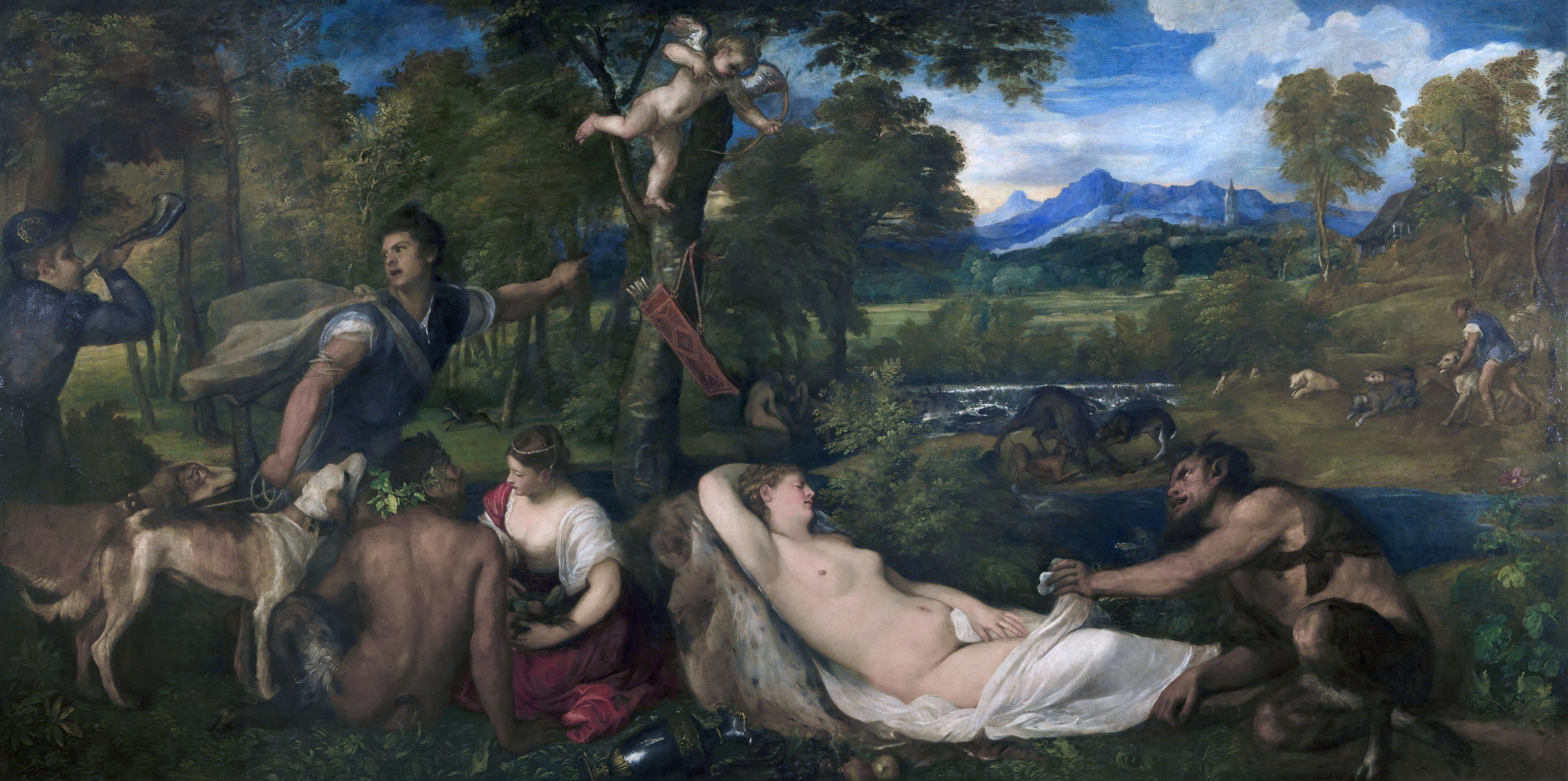 Jupiter and Antiope, (Pardo Venus) oil on canvas 196 x 385 cm 1535-1540